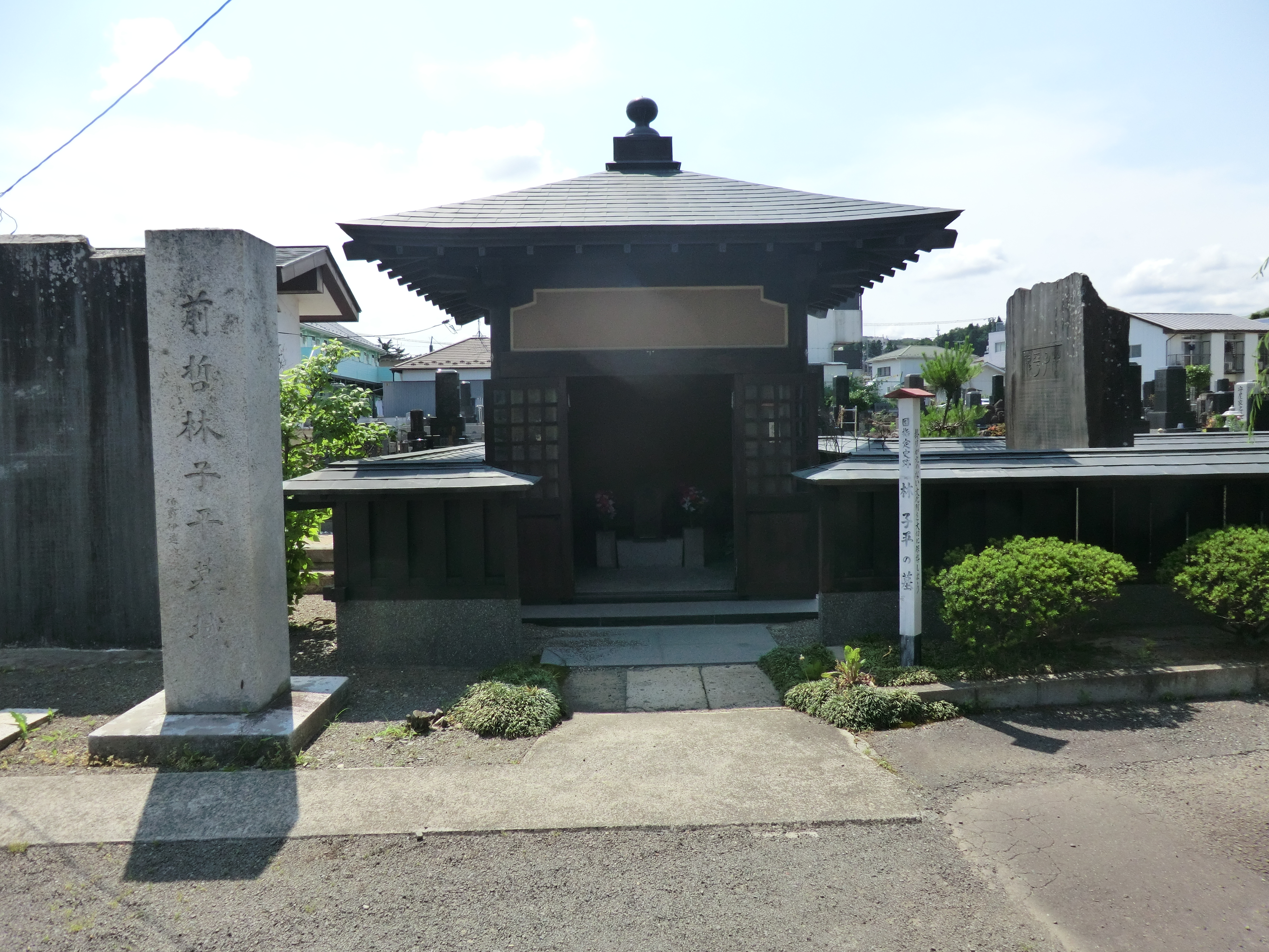 Grave of Hayashi Shihei